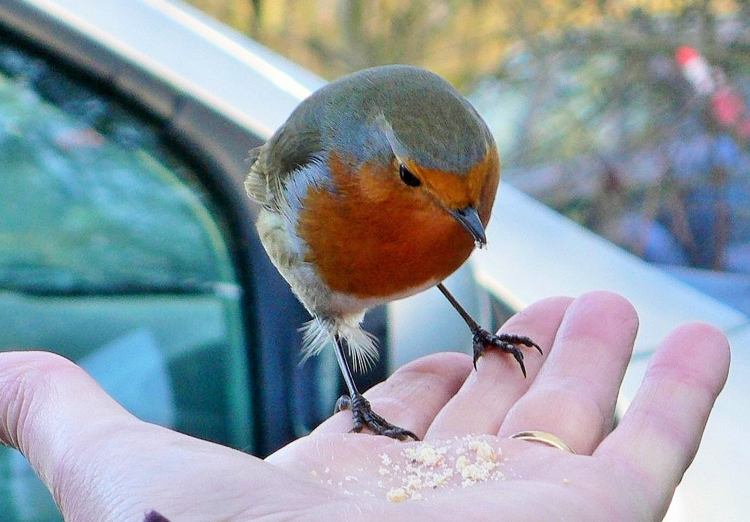 European Robin Erithacus rubecula at Titchwell RSPB Reserve, Norfolk, England. It is perching on a left hand to take food.